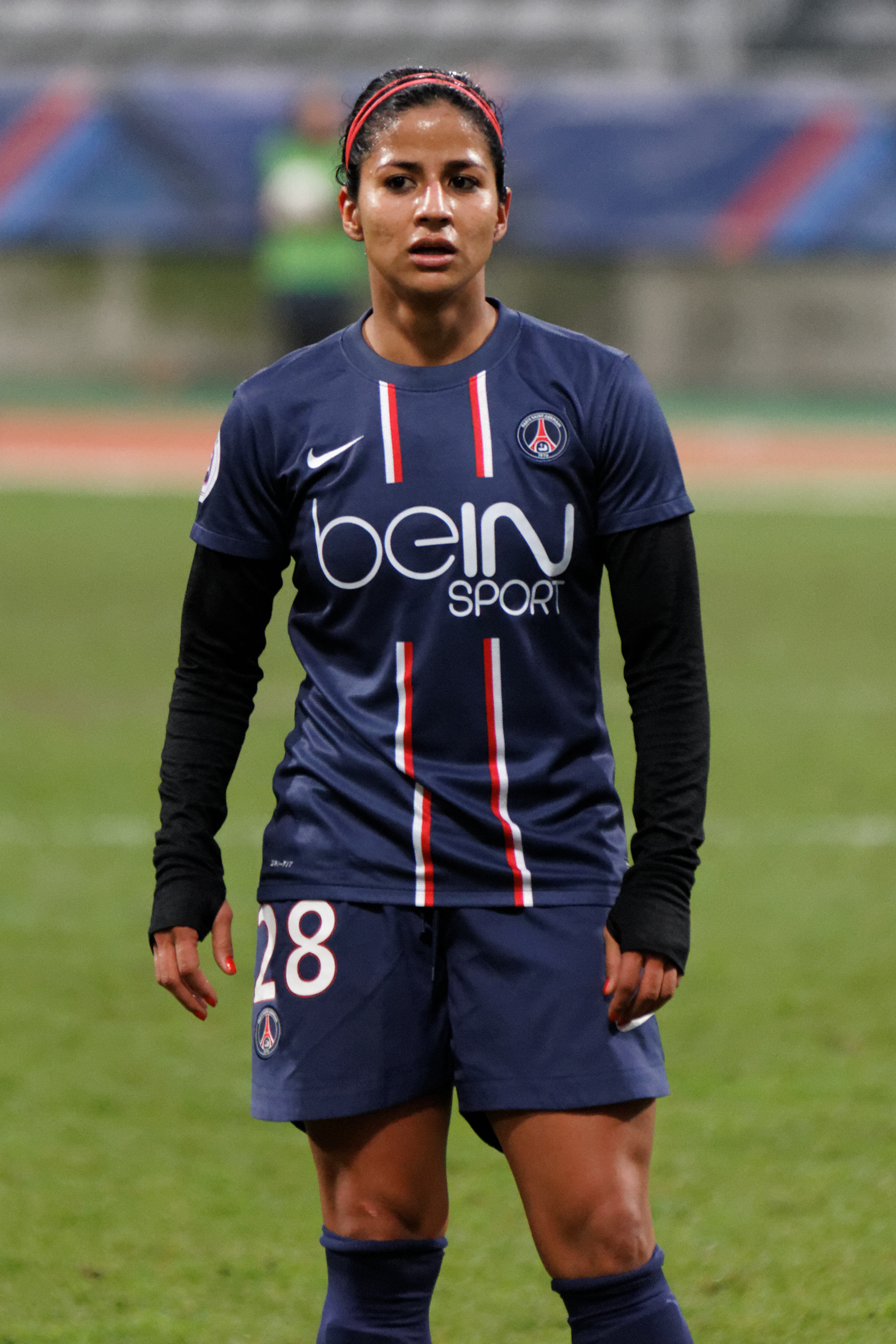 PSG-Montpellier, January 13th, 2013.